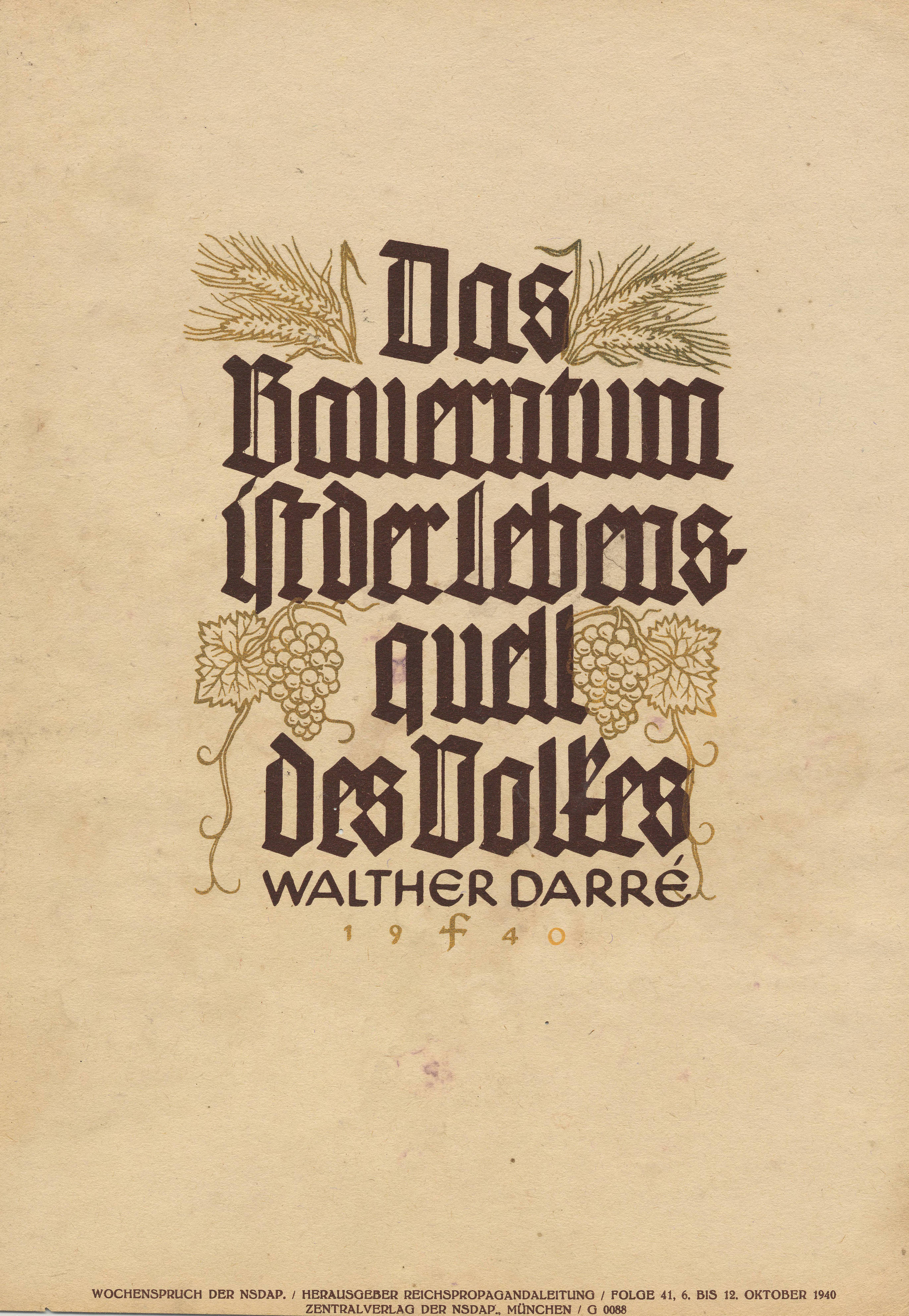 "The peasantry is the life source of the people. Walter Darré."